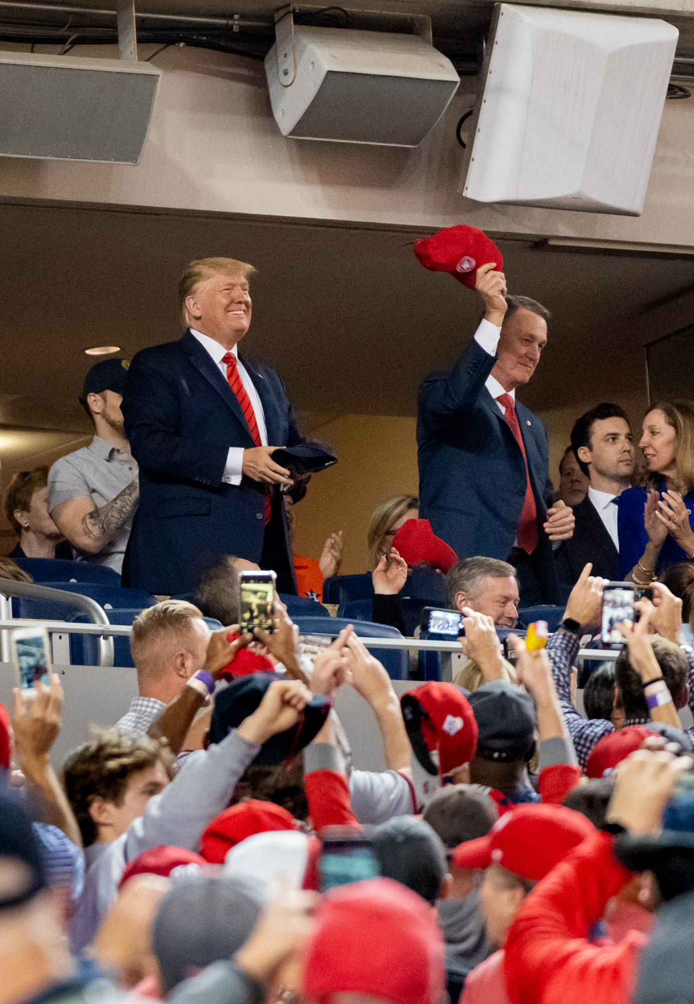 President Donald J. Trump attends Game 5 of the MLB World Series between the Washington Nationals and the Houston Astros baseball teams on Sunday evening, Oct 27, 2019, at Nationals Park in Washington, D.C. (Official White House Photo by Andrea Hanks)